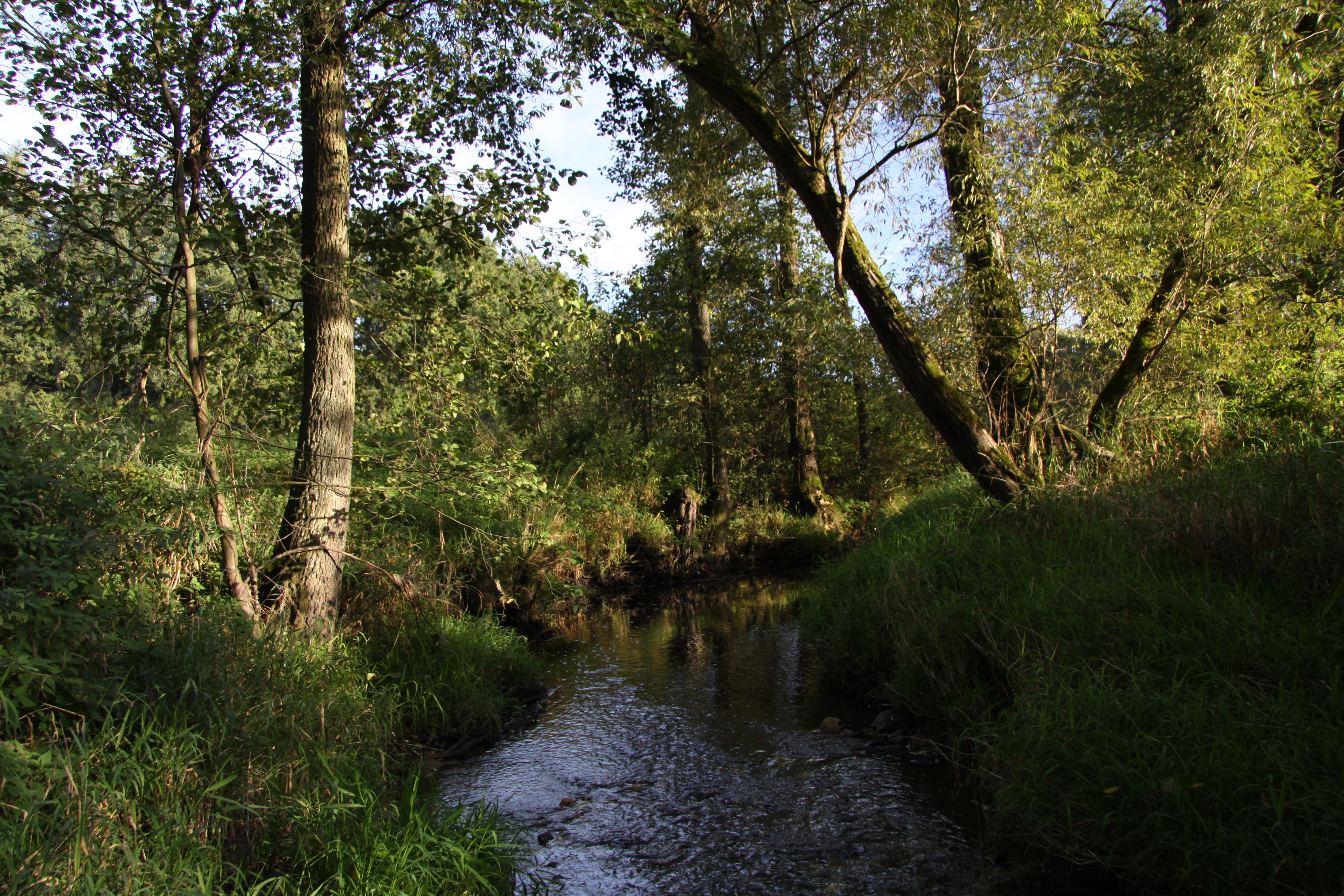 Natural monument Smutný, Písek District, Czech Republic - Google Maps - Google Earth